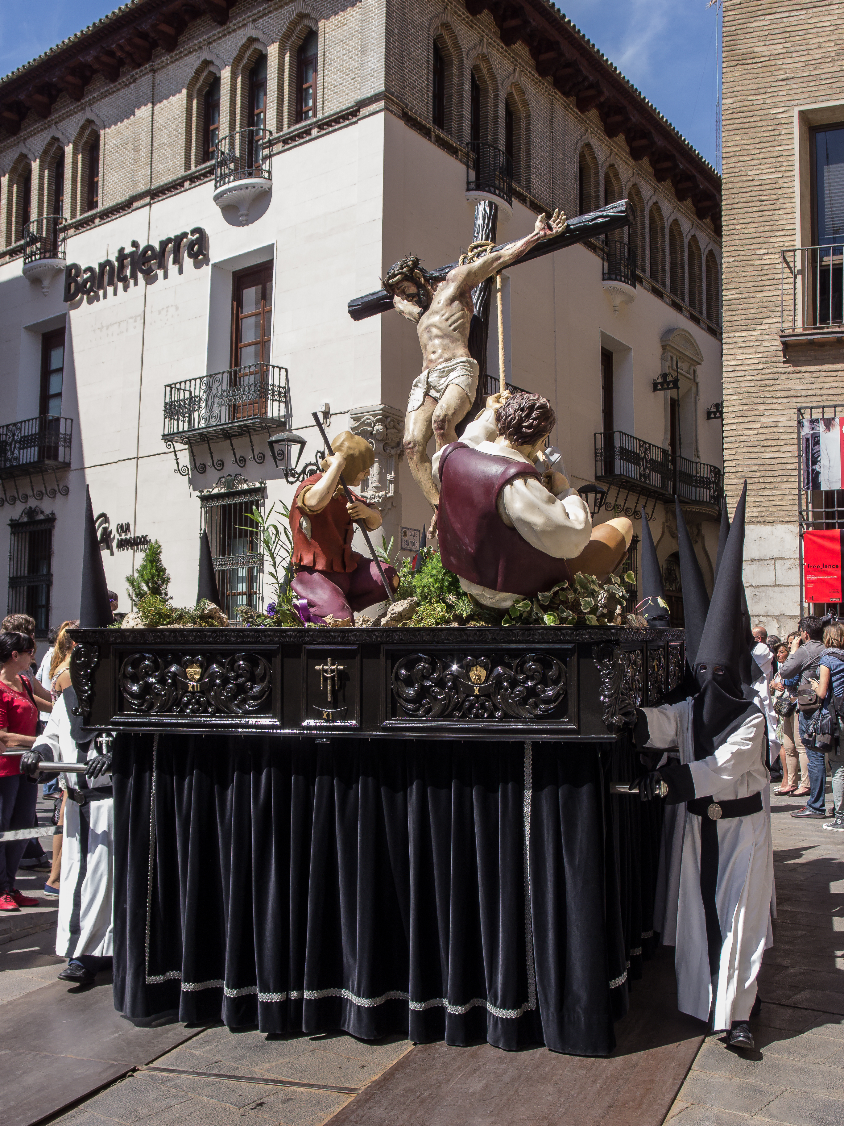 OLYMPUS DIGITAL CAMERA This is a photography of a Folklore festival in Spain (Wikidata id Q9075892).